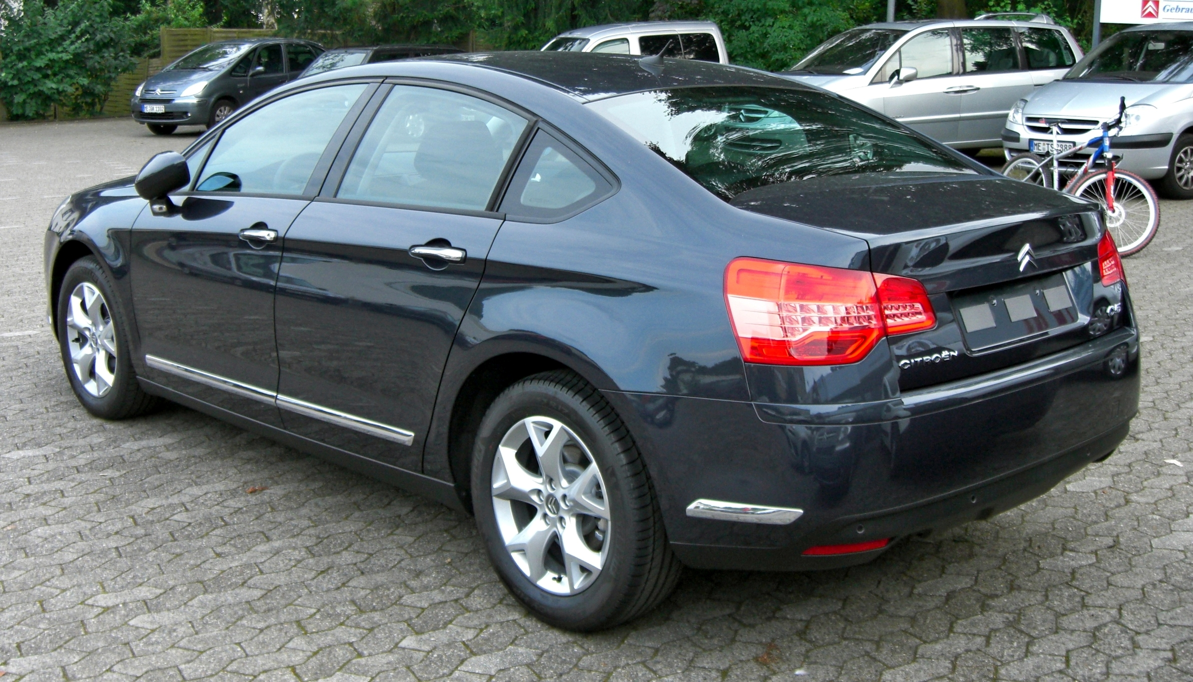 Citroën C5